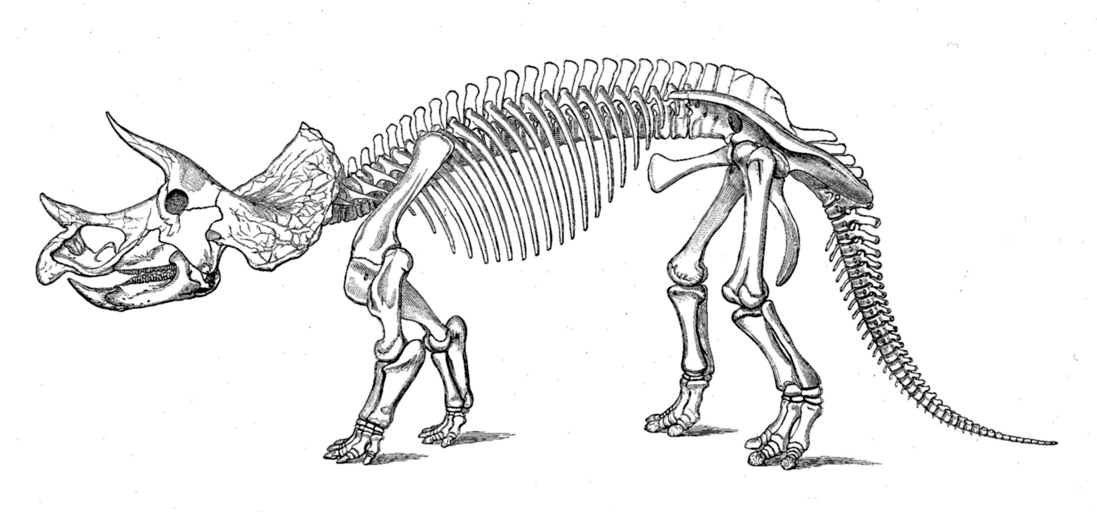 Skeletal restoration of Triceratops prorsus, based on the holotype skull and a referred specimen.